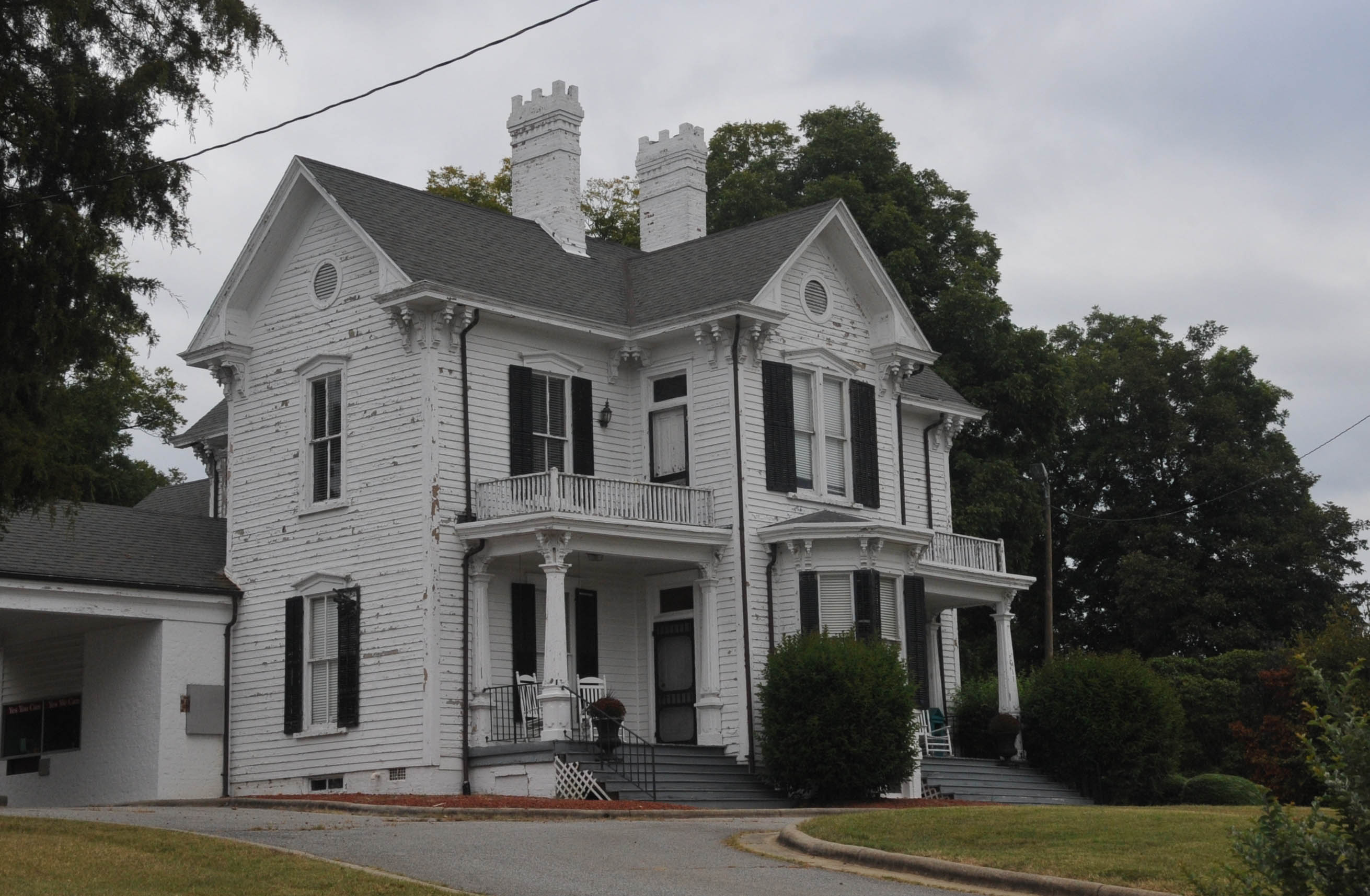 1880 VICTORIAN ITALIANATE